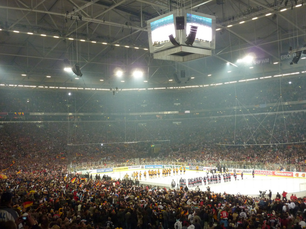 Opening game of 2010 World Championship in Germany. World record: 77803 spectators. Germany-USA 2-1 in overtime.